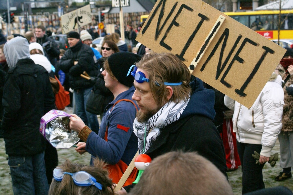 Week 15a: 2009-01-20. Protesters at Stjórnarrád - the seat of the Prime Minister. The Kitchenware-Revolution in Iceland was organize by Hördur Torfason and "Raddir Fólksins". It started in the wake of the collapse of the banking system followed be the decimation of Icelandic economy in the beginning of October 2008. It resulted in the resignation of Geir H. Haarde and his cabinet on January 26. 2009. The protest meetings were held every Saturday at the Austurvöllur square in front of Alþingishús - the Icelandic parliament house. The first meeting (week 1) was dated Saturday 11. October 2008. The 16th meeting dated January 24. 2009